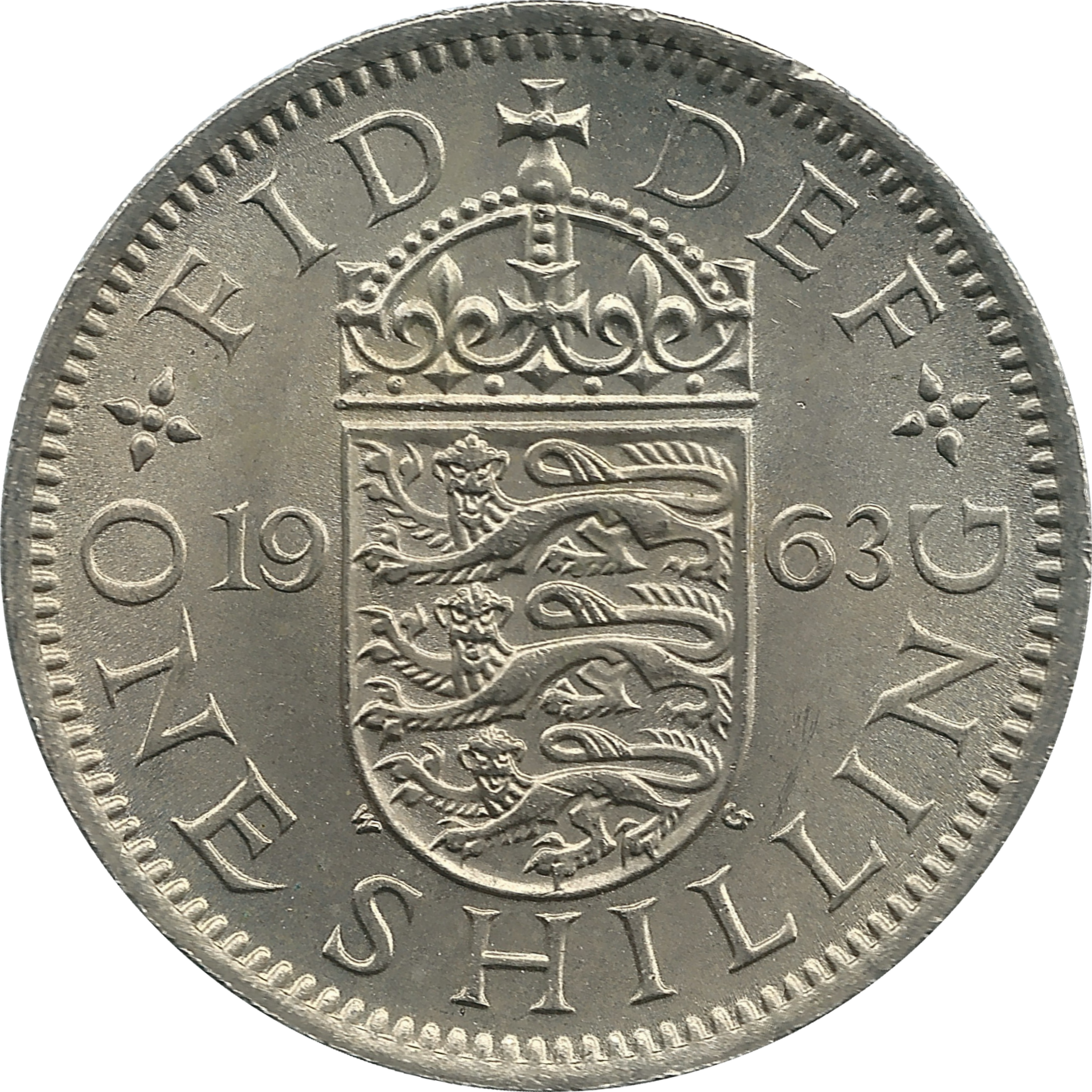 Reverse of the British 1963 shilling